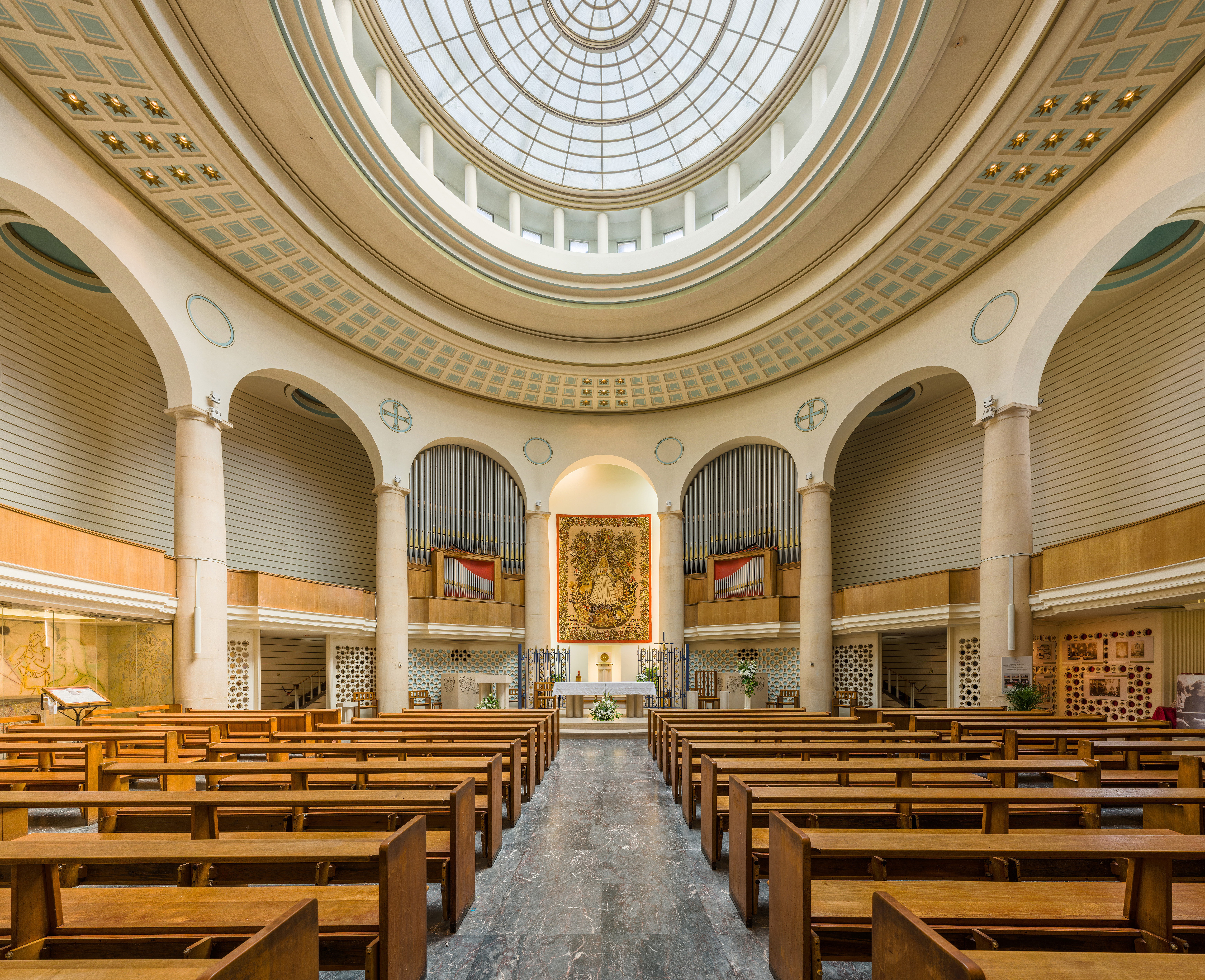 The interior of the Notre Dame de France Church in Soho, London, England.